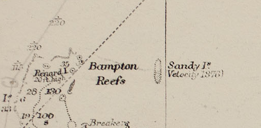 A crop showing clearly the non-existent "Sandy Island" on a 1908 chart which may have been the source of the error